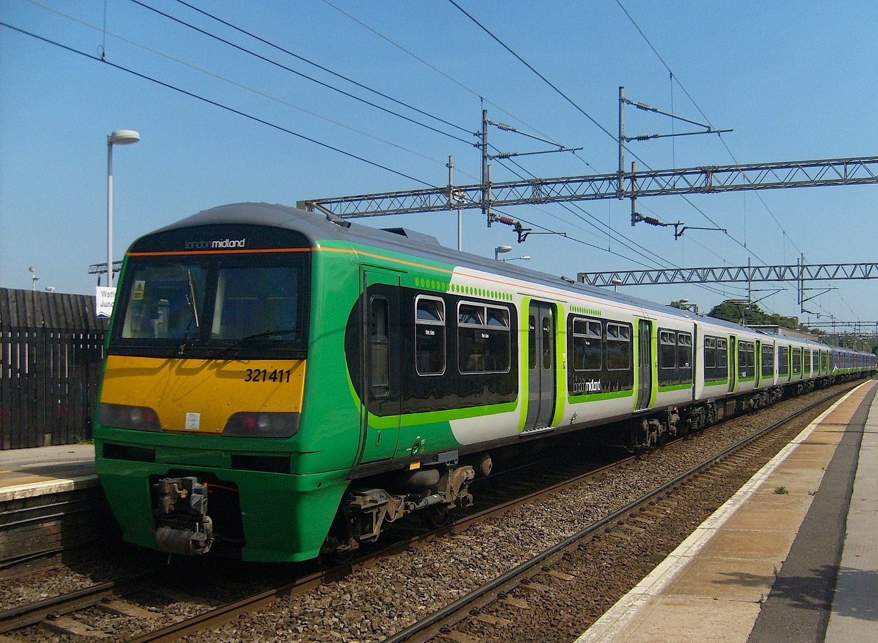 The first Class 321 in london midland livery is 321411 and is seen at Watford Junction. The EMU is coupled to another Class 321 EMU in the former silverlink train services livery.